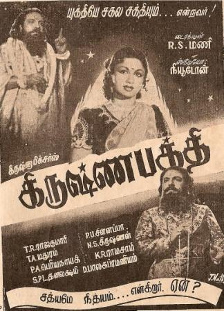 Poster for the 1949 South Indian Tamil film Krishna Bakthi